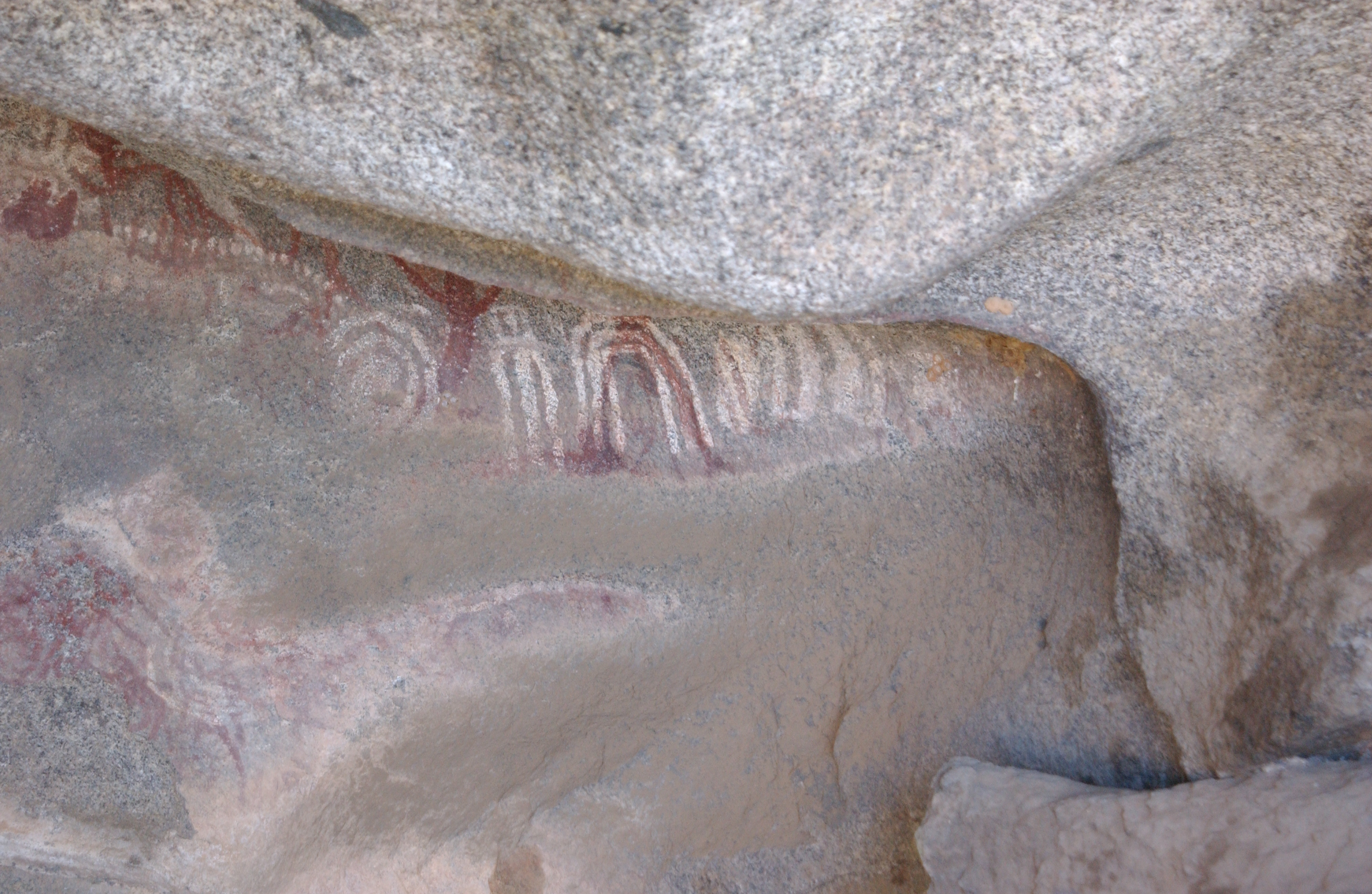 THESE PAINTINGS ARE LOCATED ABOUT 3 KM FROM THE COLLAPSED NATURAL BRIDGE ON THE NORTH COAST